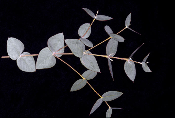 Juvenile leaves of Eucalyptus horistes south of Zanthus, towards Balladonia, Western Australia